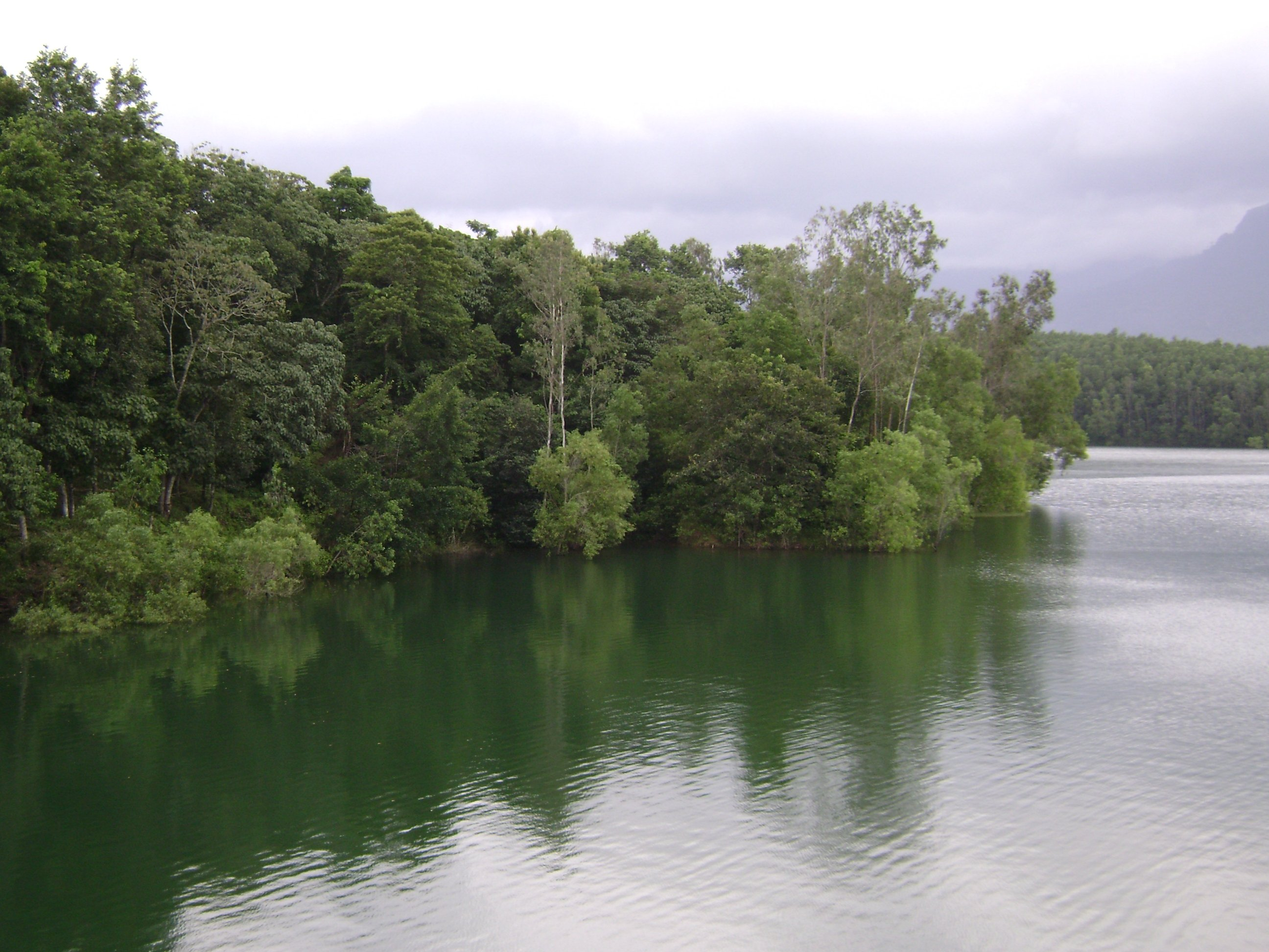 Photo Was taken by Rajiv R Nair.This was taken From the peppara Dam and shows the forests Surrounding the peppara Reservoir.